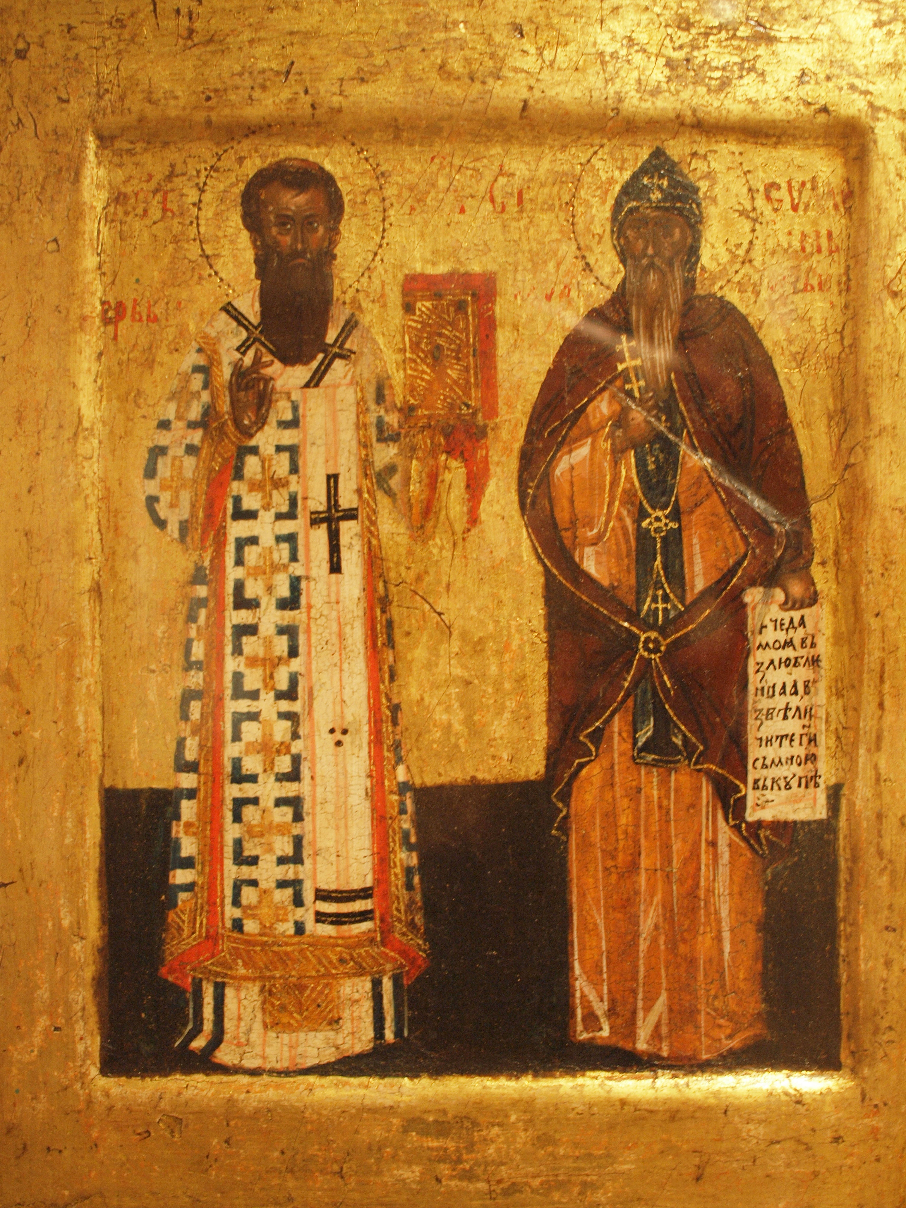 St. Sava and St. Simeon, golden Serbian icon